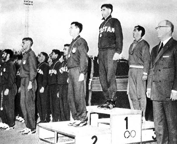 Rome, Olympic Velodrome. The medal ceremony for the men's field hockey tournament at the 17th Olympic games in Rome; gold medalist were Pakistan national team; silver medalist India and bronze medalist were Spain.